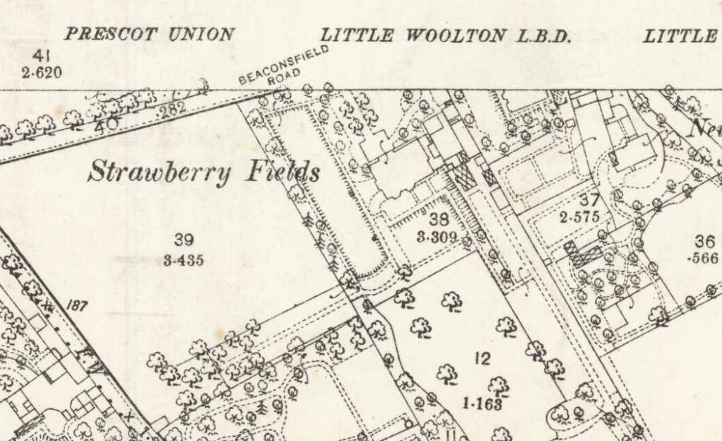 Extract from OS 25 inch England and Wales, 1891: Lancashire CXIV.5 (includes: Liverpool)